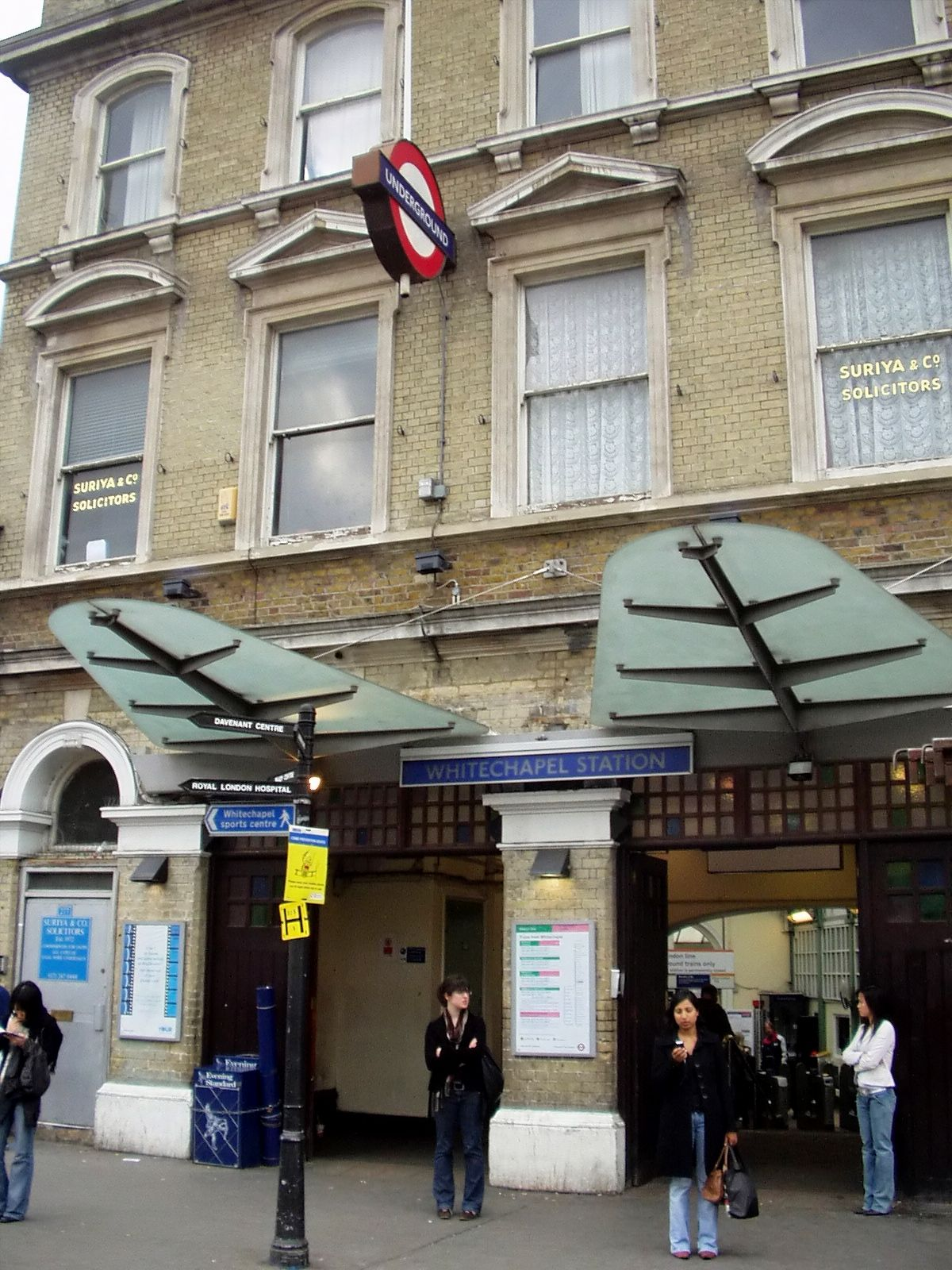 the entrance to whitechapel station